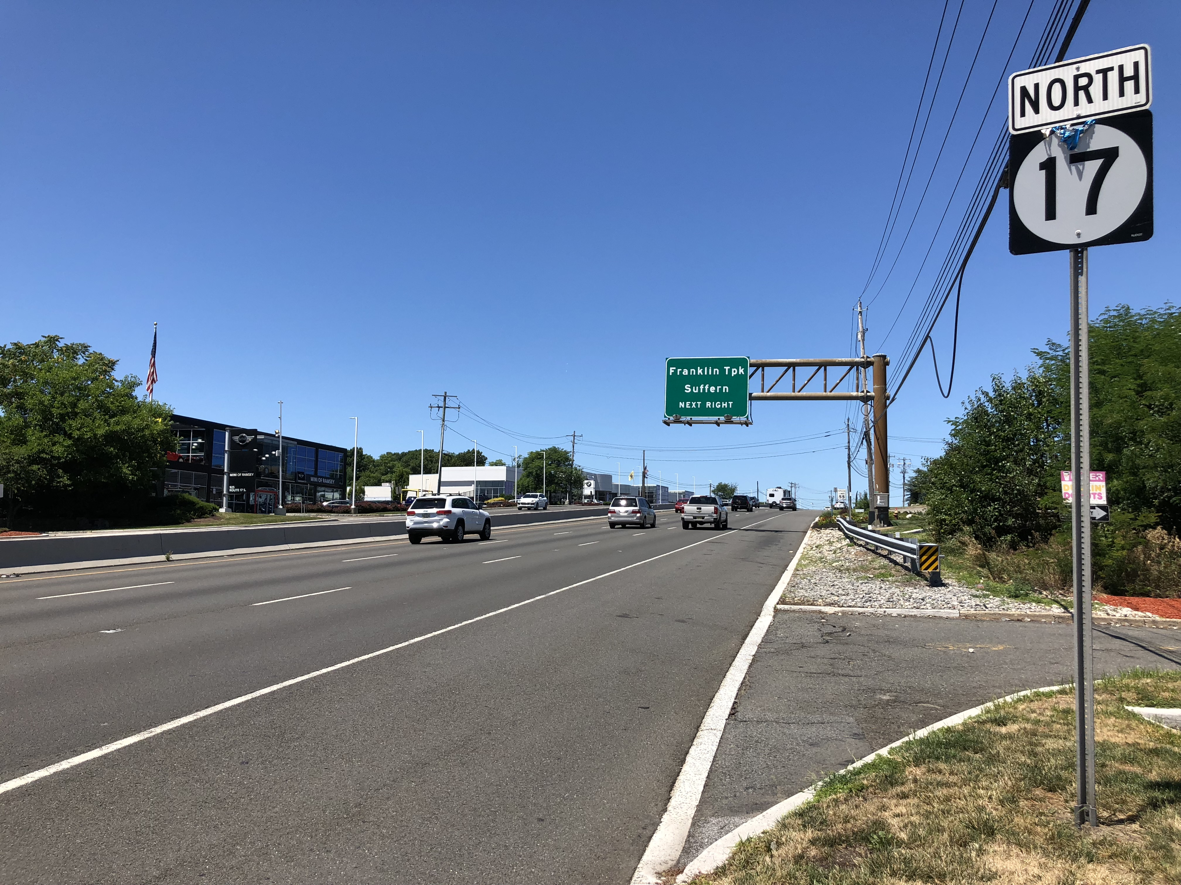 View north along New Jersey State Route 17 at Bergen County Route 83 (Airmount Avenue) in Ramsey, Bergen County, New Jersey